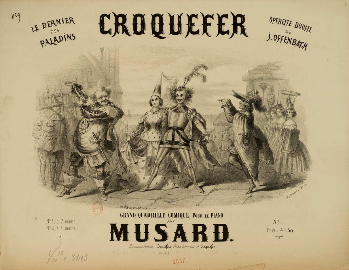 Quadrille by Adoplhe Musard arr. from Jacques Offenbach's operetta "Croquefer", title page with engraving by A.-V. Bertrand. Étienne Pradeau as Croquefer, Marie-Aurélie Mareschal as Fleur-du-Souffre, Henri Tayau as Ramasse-ta-Tête and Léonce as Boutefeu